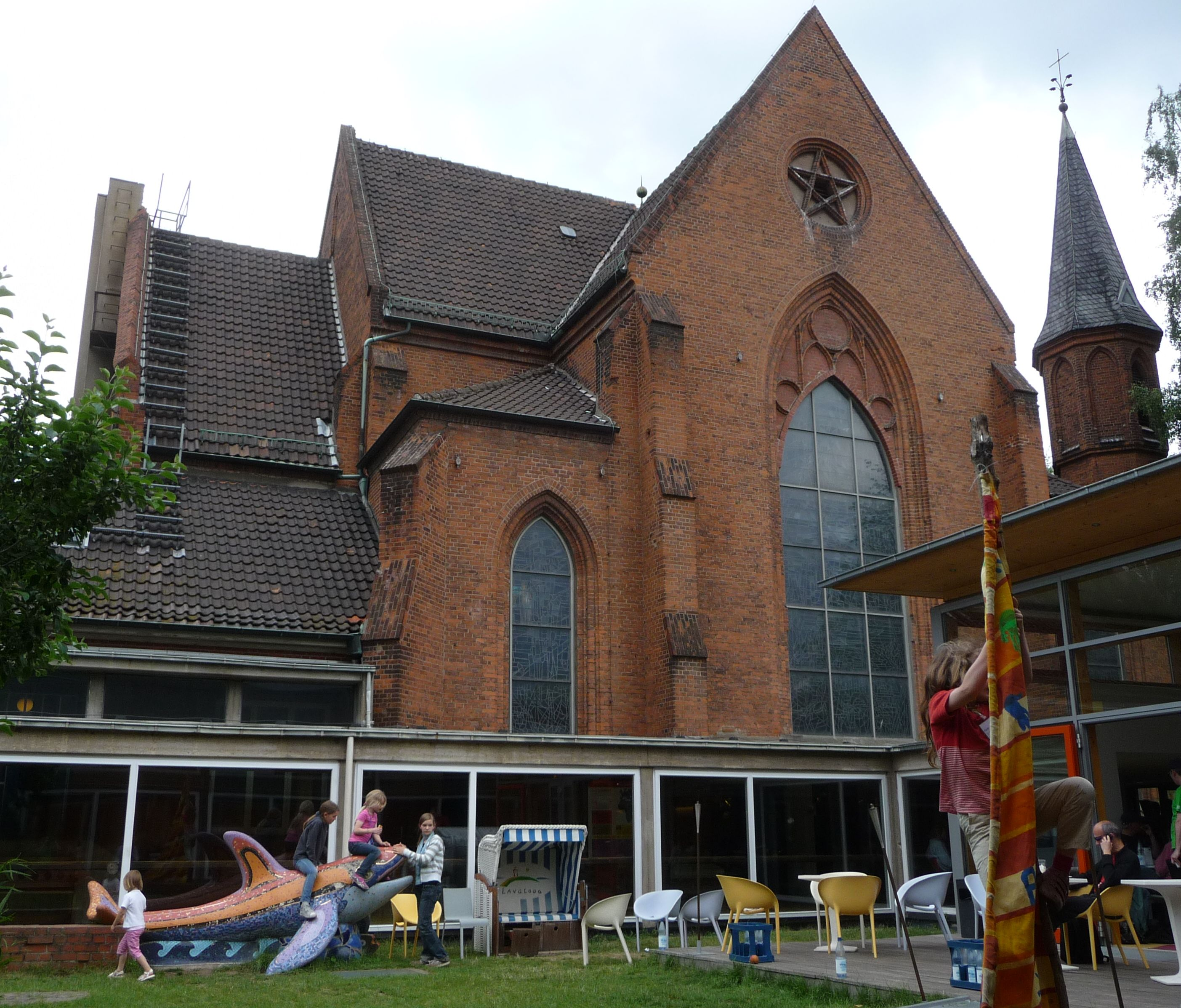 Church in Bremen, Germany